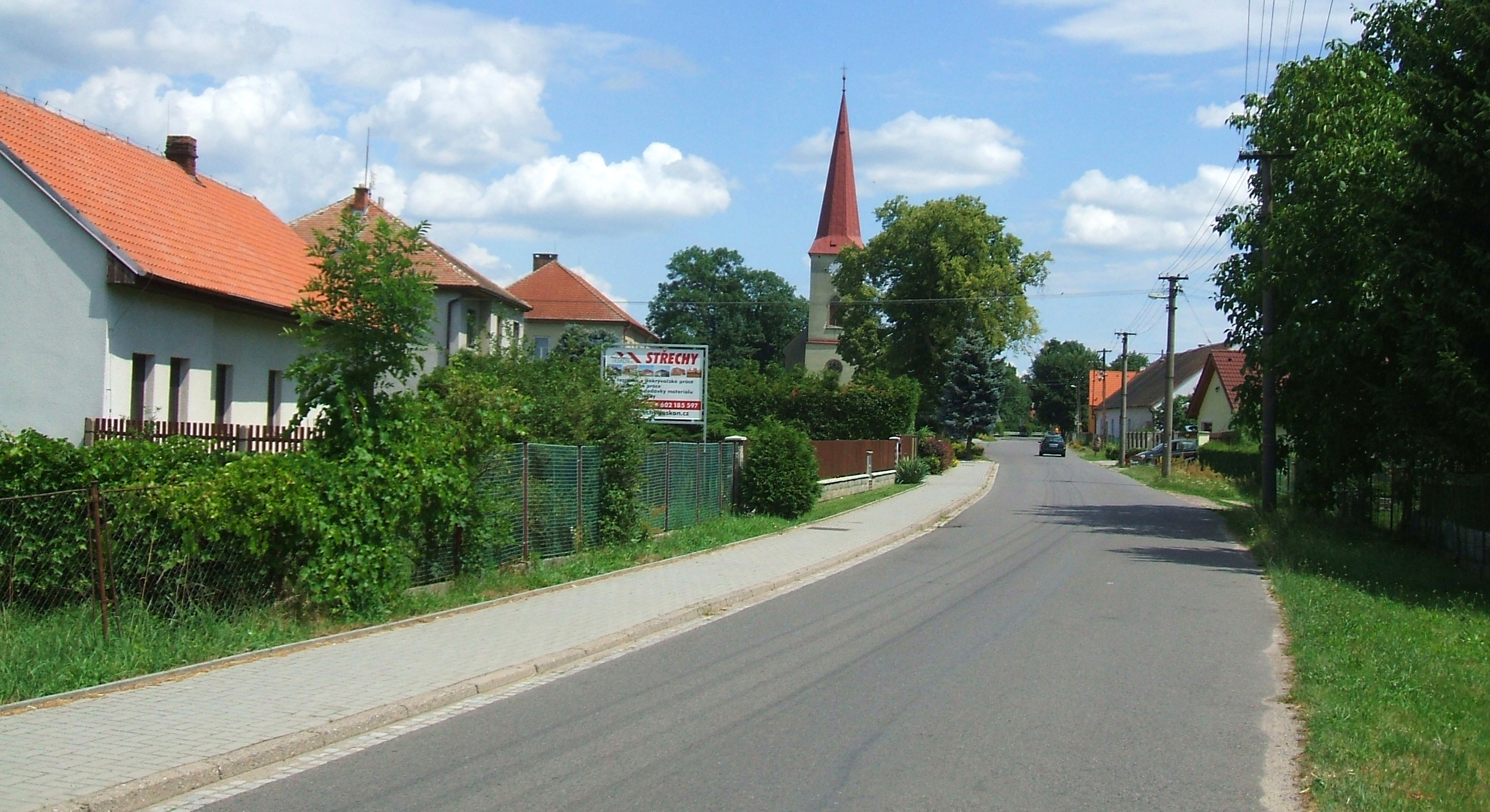 Kunětice, Pardubice District, Czech Republic. Česky: Kunětice,obec v okrese Pardubice